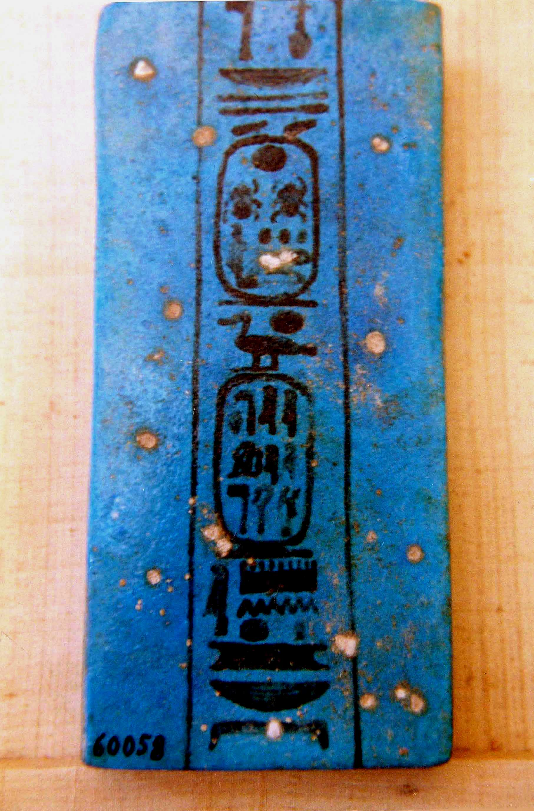 Faience plate with the names and titles of King Kheperkheperure-irmaat Ay, "Beloved of Amun-Re, Lord of the sky", Cairo. Egyptian Museum, 60058